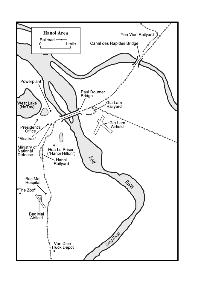 Map showing rail lines and air bases that were targets of the US Air Force in North Vietnam.